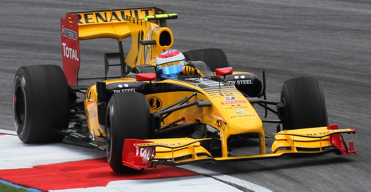 Formula One 2010 Rd.3 Malaysian GP: Vitaly Petrov (Renault) in Saturday 3rd Free Practice session.